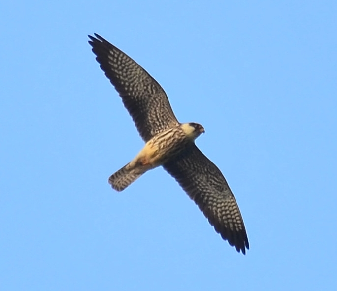 Amur Falcon Falco amurensis female showing underwing pattern. In migration over Assam, India. Oct 27, 2013.